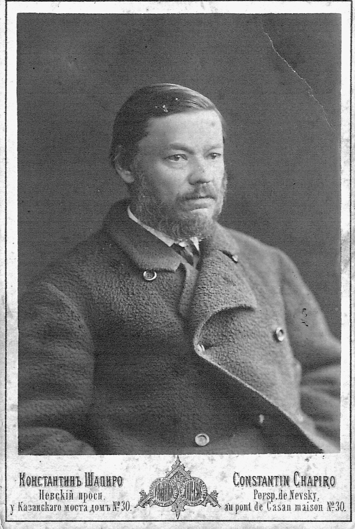 Illustration from Brockhaus and Efron Encyclopedic Dictionary (1890—1907)